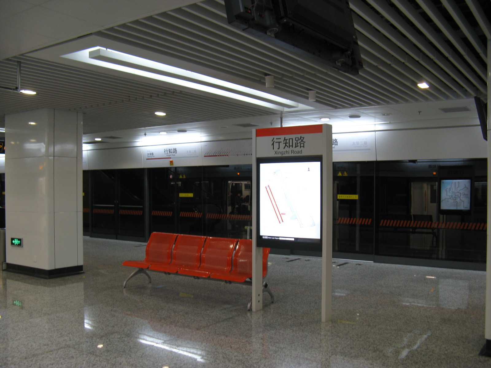 Xingzhi Road Station Line7 Shanghai Metro